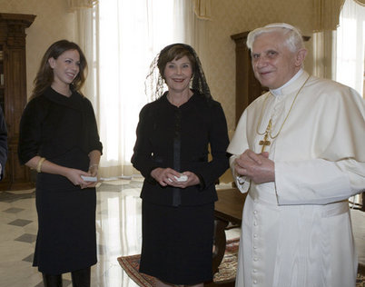 Mrs. Laura Bush and daughter Barbara Bush meet in a private audience with Pope Benedict XVI, Thursday, Feb. 9, 2006 at the Vatican.